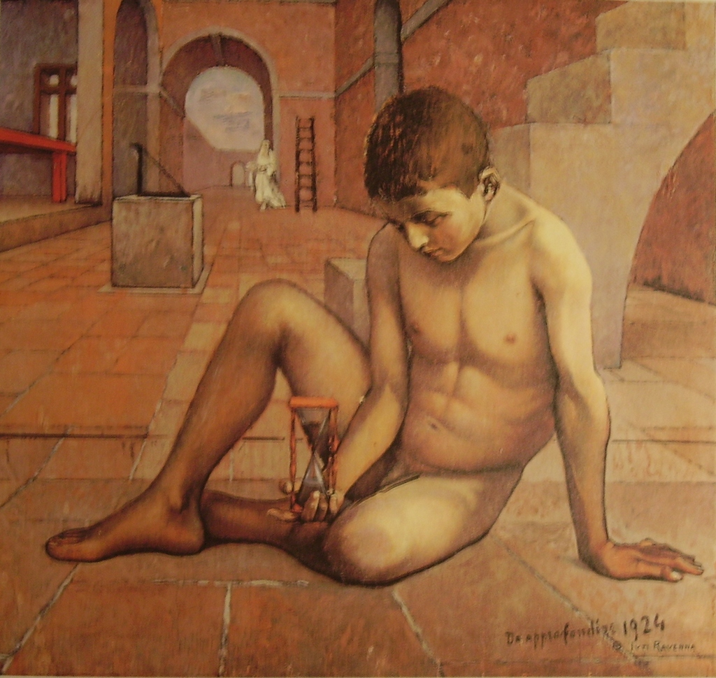 Juti Ravenna - ll discepolo